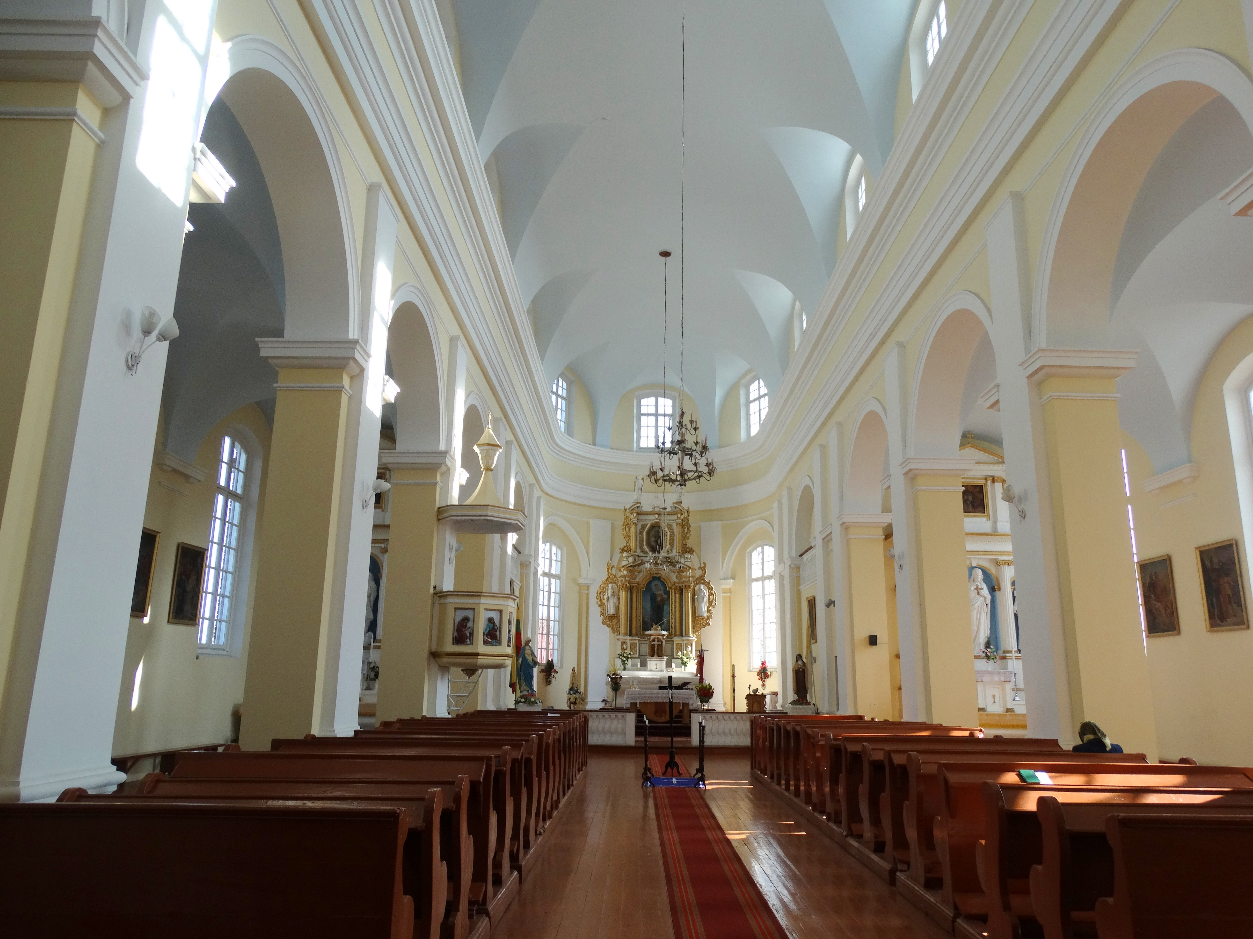 Roman Catholic Church, interior, Ariogala, Raseiniai district, Lithuania